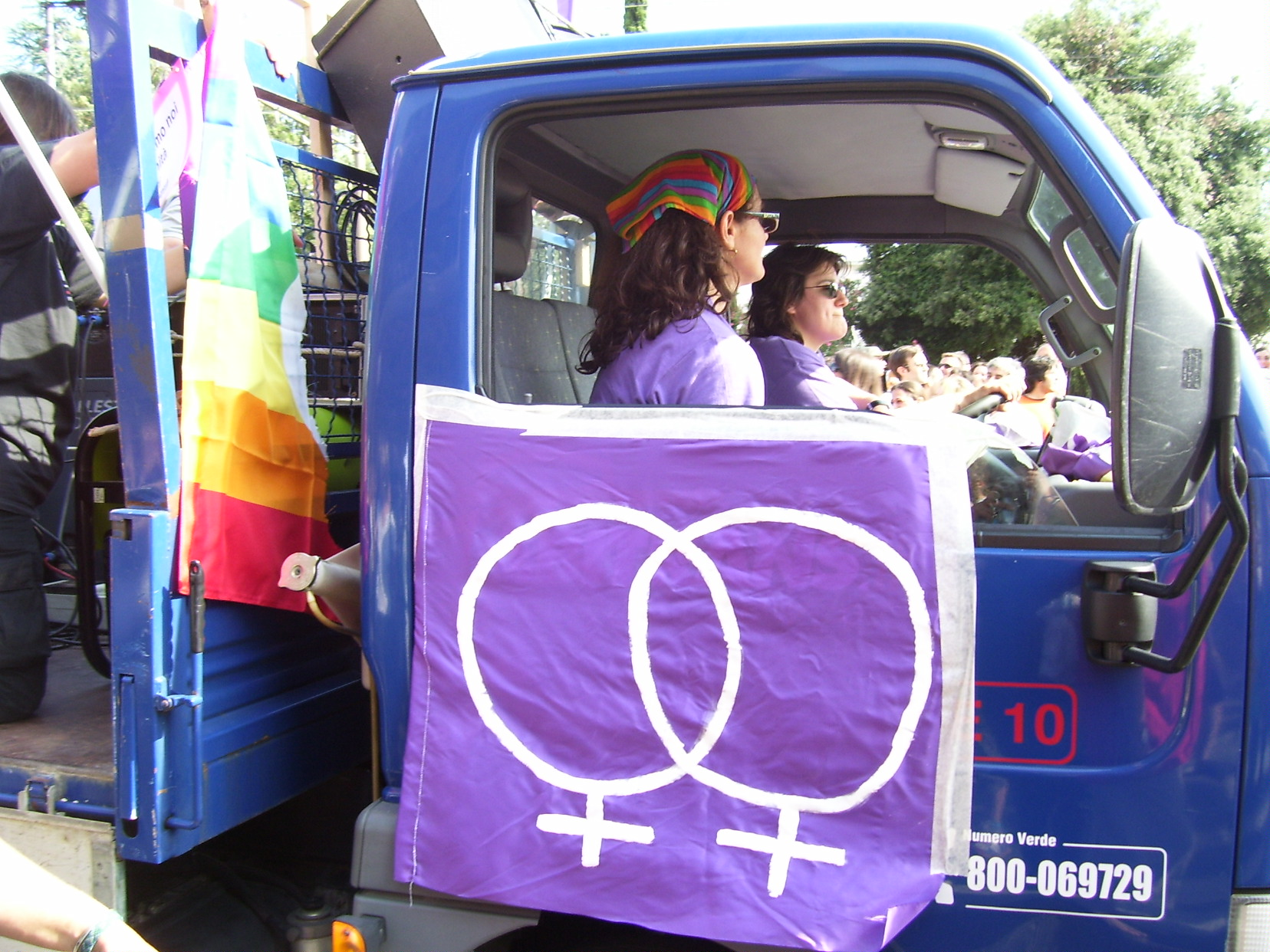 Lesbian symbols at the National Gay Pride march in Rome, on June 16 2007. Picture by Dedda71.